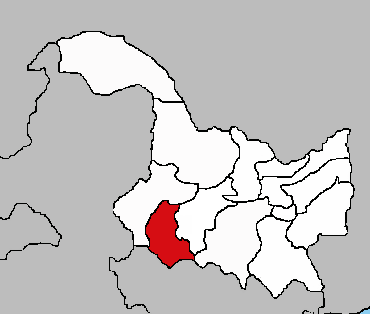 Locator map of Daqing — Heilongjiang Province, northeastern China.